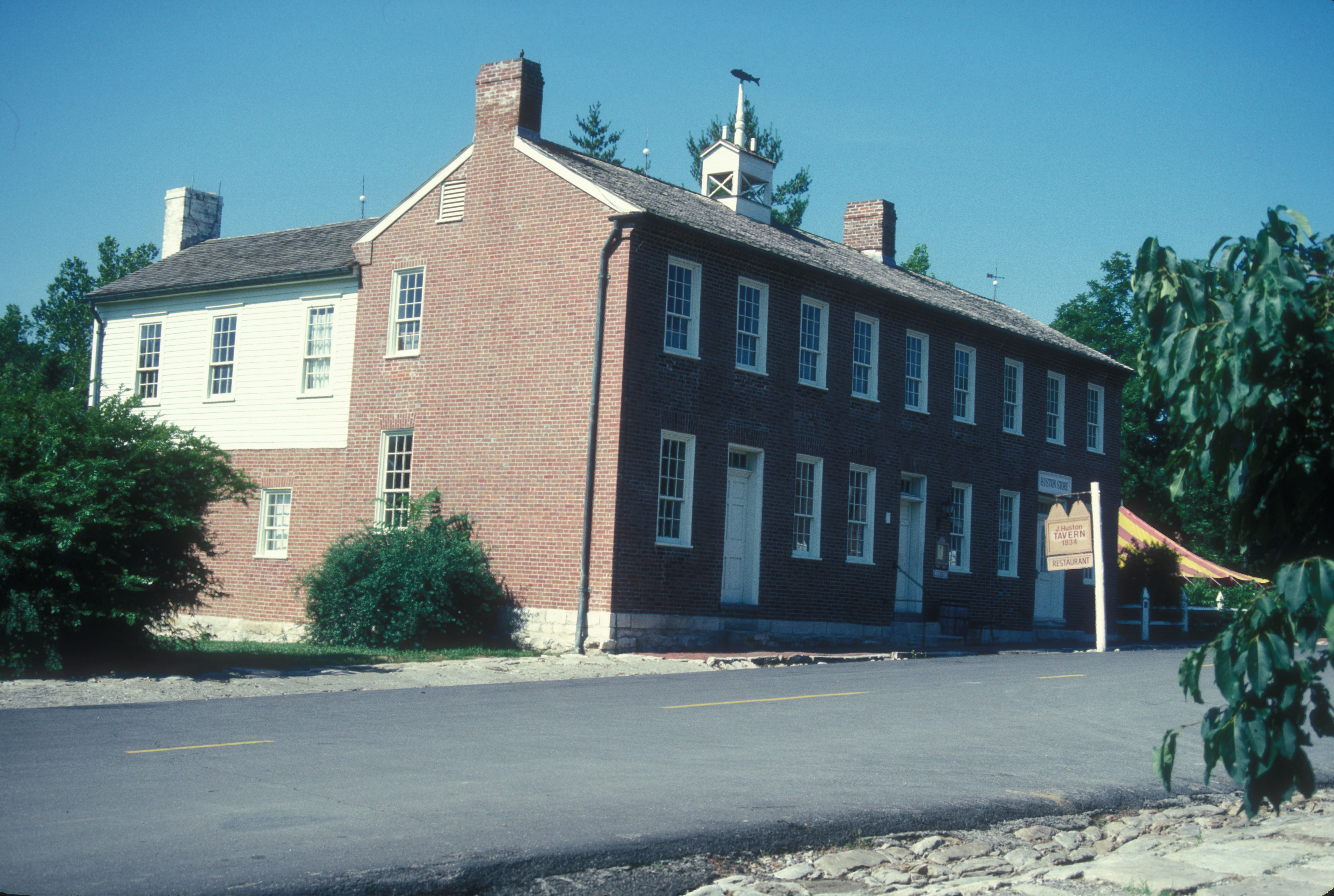 BRICK FEDERAL CONSTRUCTED IN 1834 AND STILL SERVING MEALS